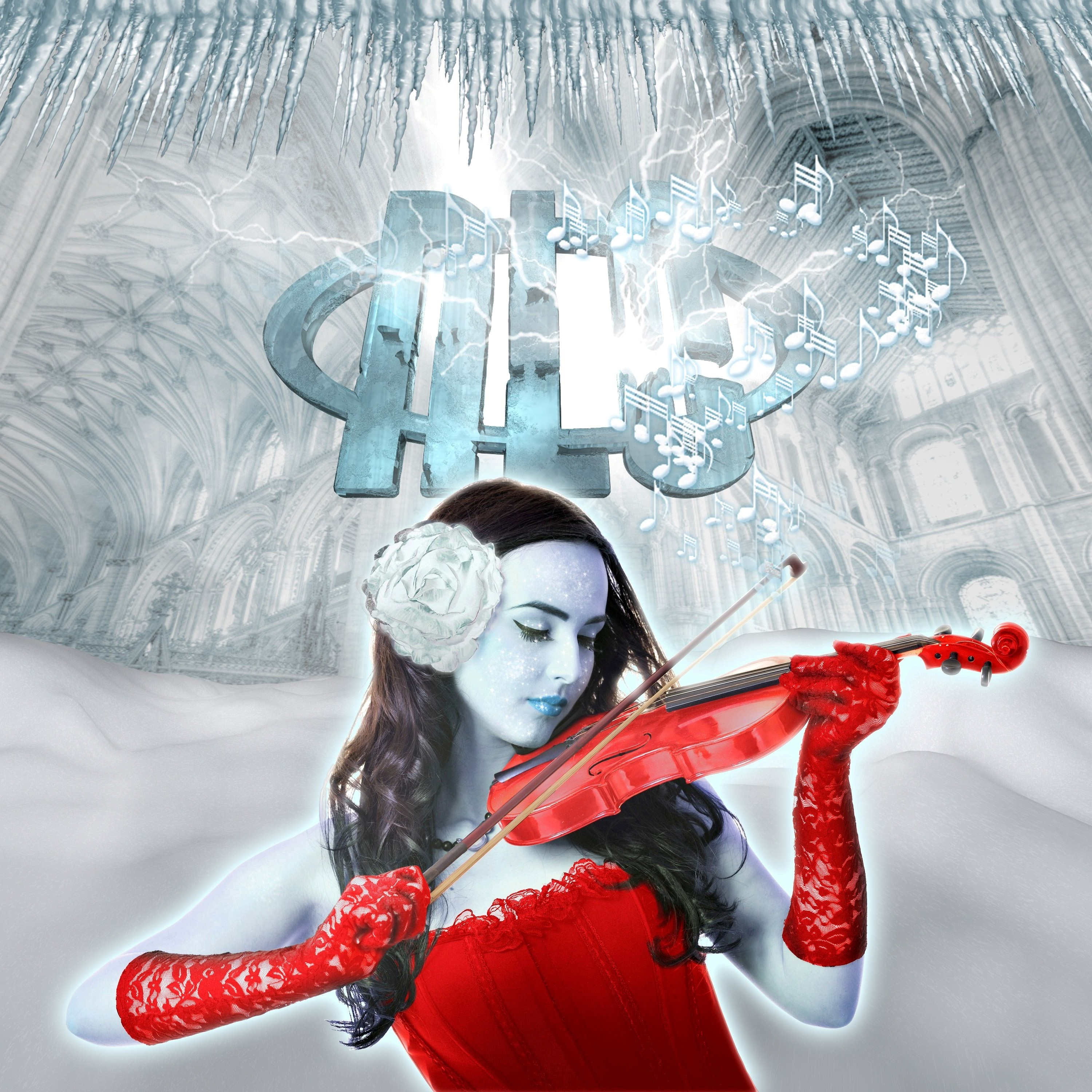 NLO New Cover